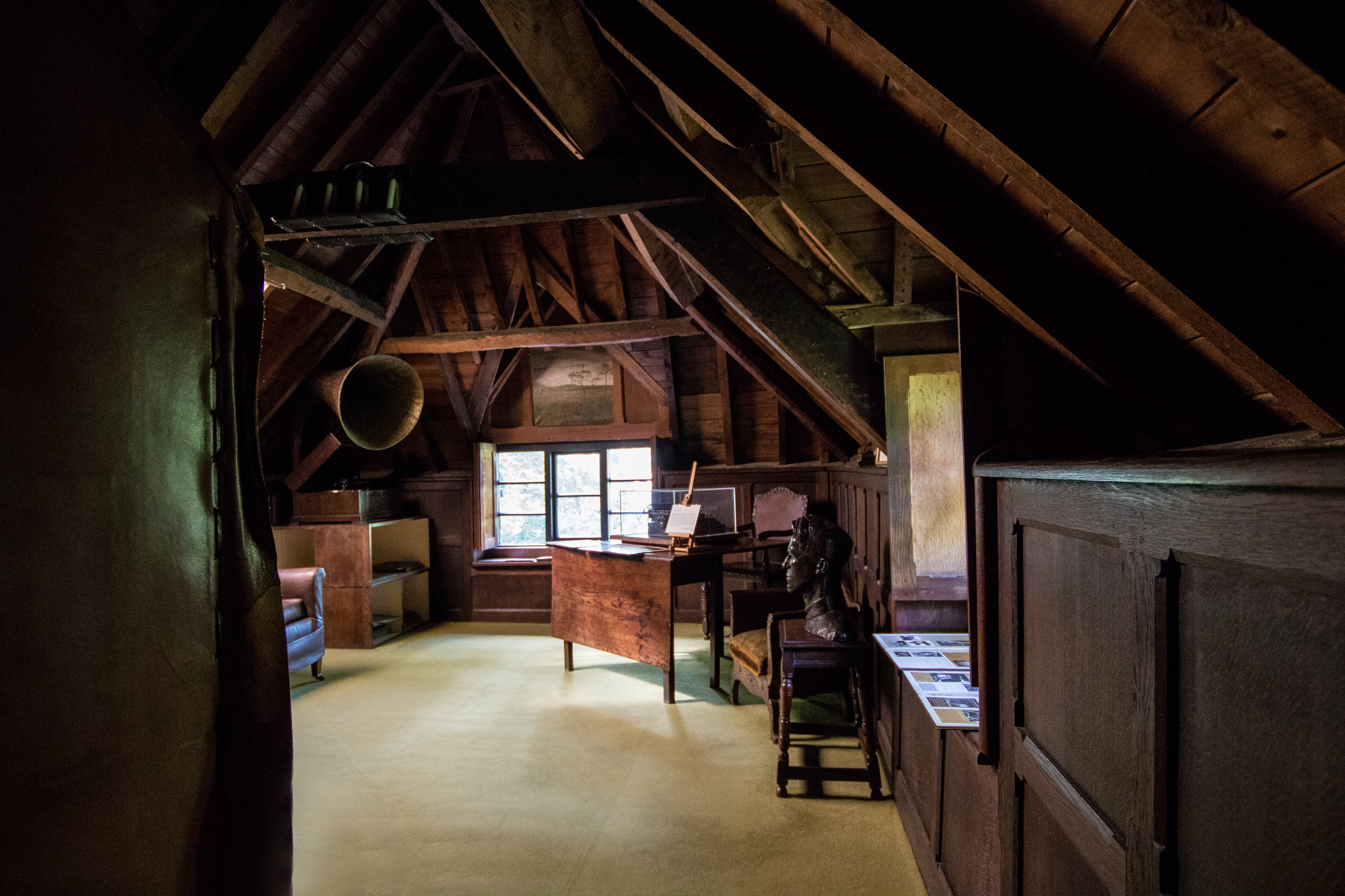 The Music Room at Clouds Hill, near Bovington in Dorset. "Lawrence set up the main first-floor room at Clouds Hill in the winter of 1923-4, as a place where he could work, read and listen to music... He purchased settee and table and chair from auction rooms in Dorchester." 'T.E. Lawrence & Clouds Hill' National Trust booklet. Above the window is a landscape painting of Clouds Hill by Gilbert Spencer. On the right, a bust of Lawrence by Eric Kennington. In the left corner, a huge gramophone.